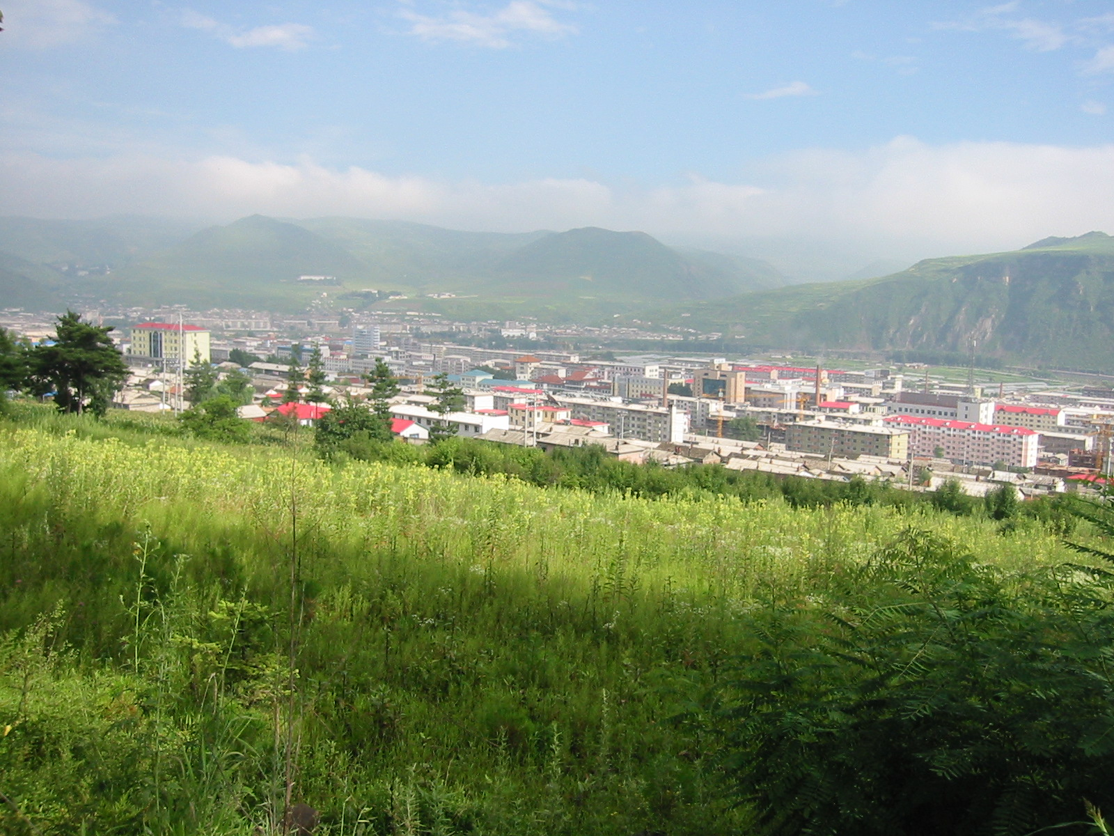 Changbai Korean Autonomous County